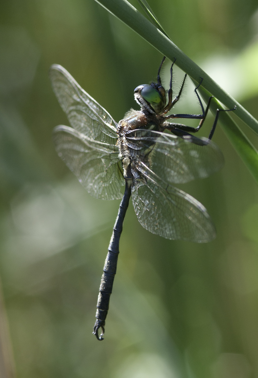 adult male Hine's emerald dragonfly, Somatochlora hineana, Will County Illinois